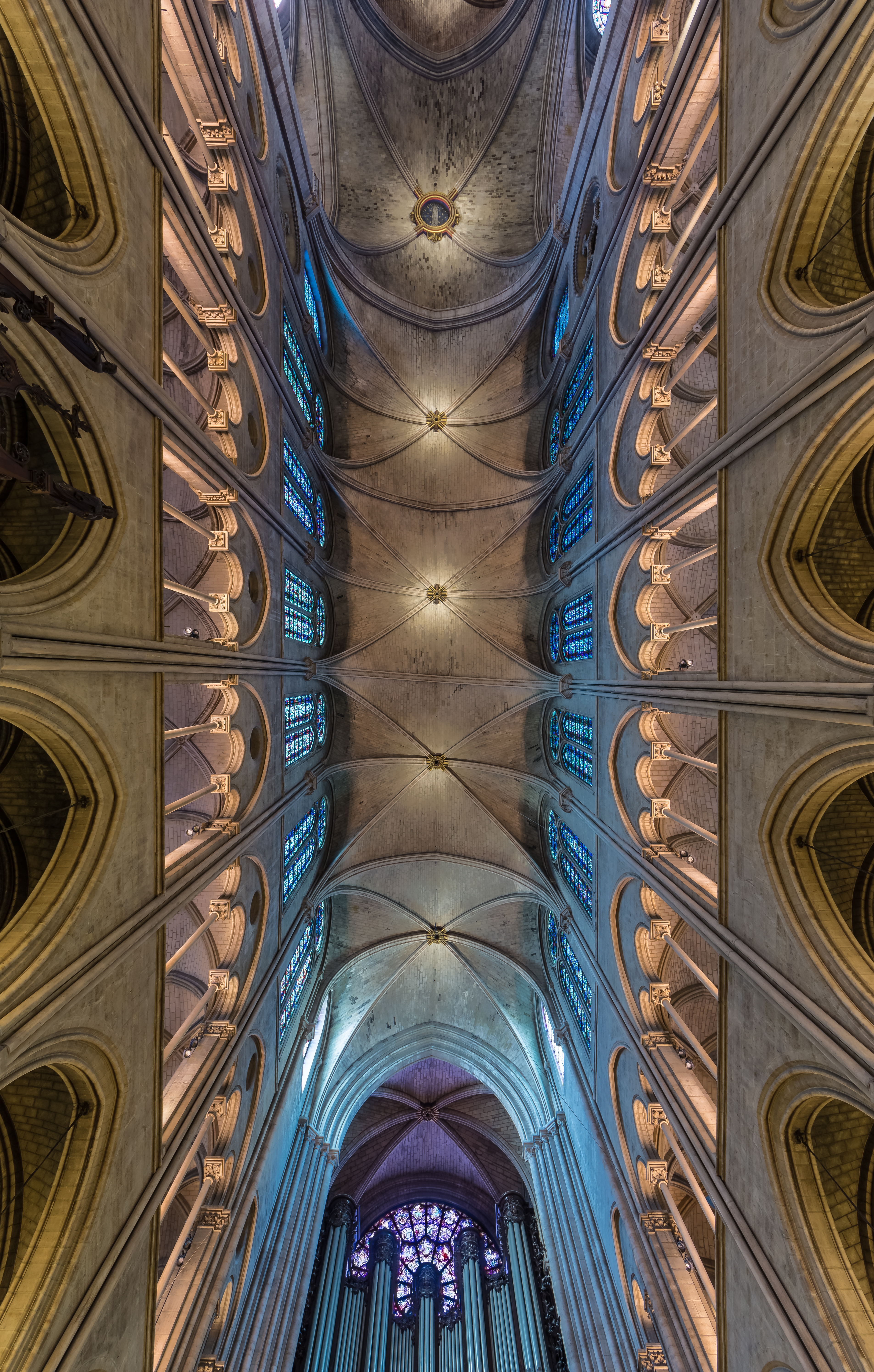 Vaults in the nave of cathedral Notre-Dame de Paris, France. The pillars are slightly offset, so that the vaults are a bit skewed.